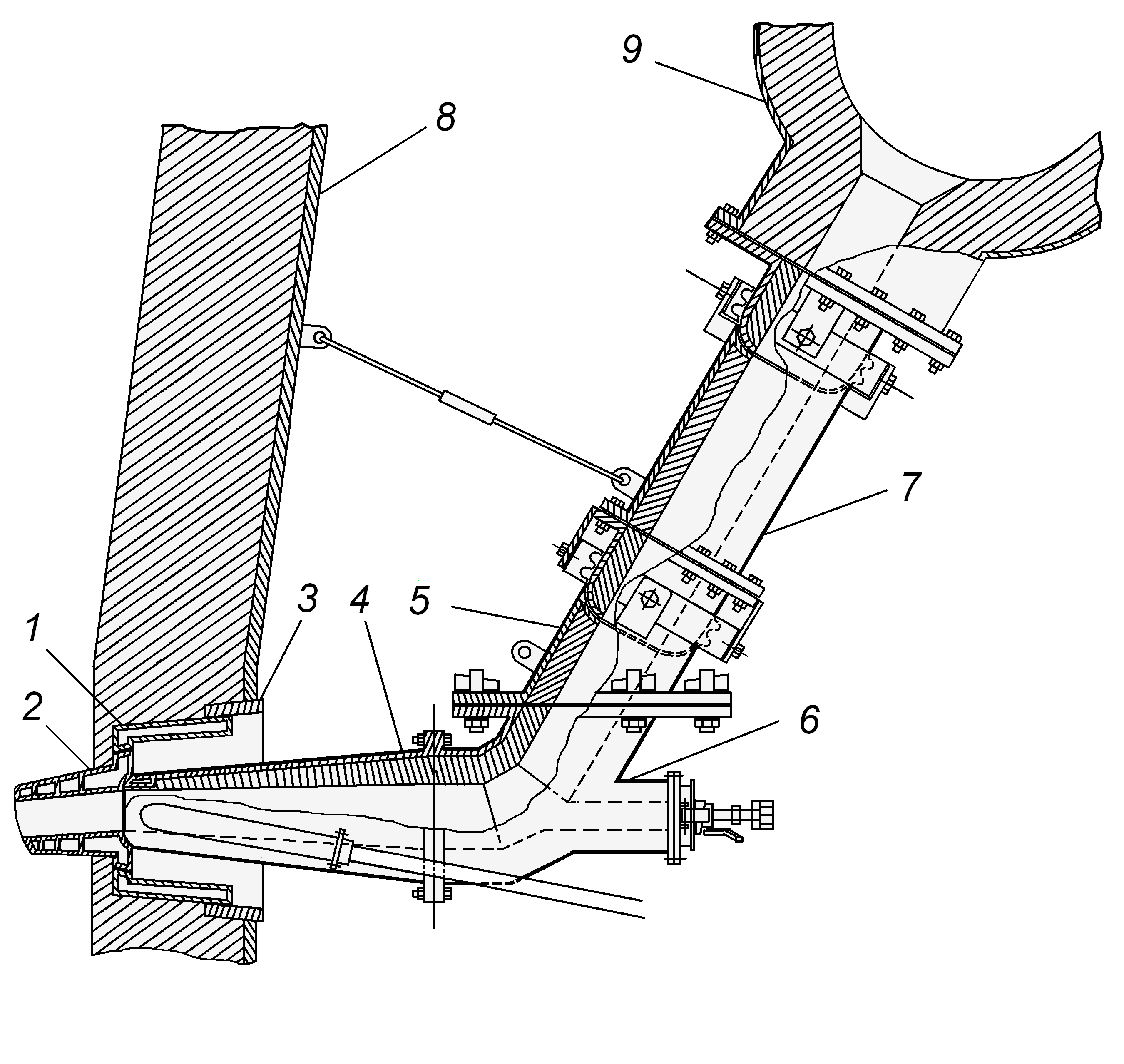 Cardan-type tuyere stock.